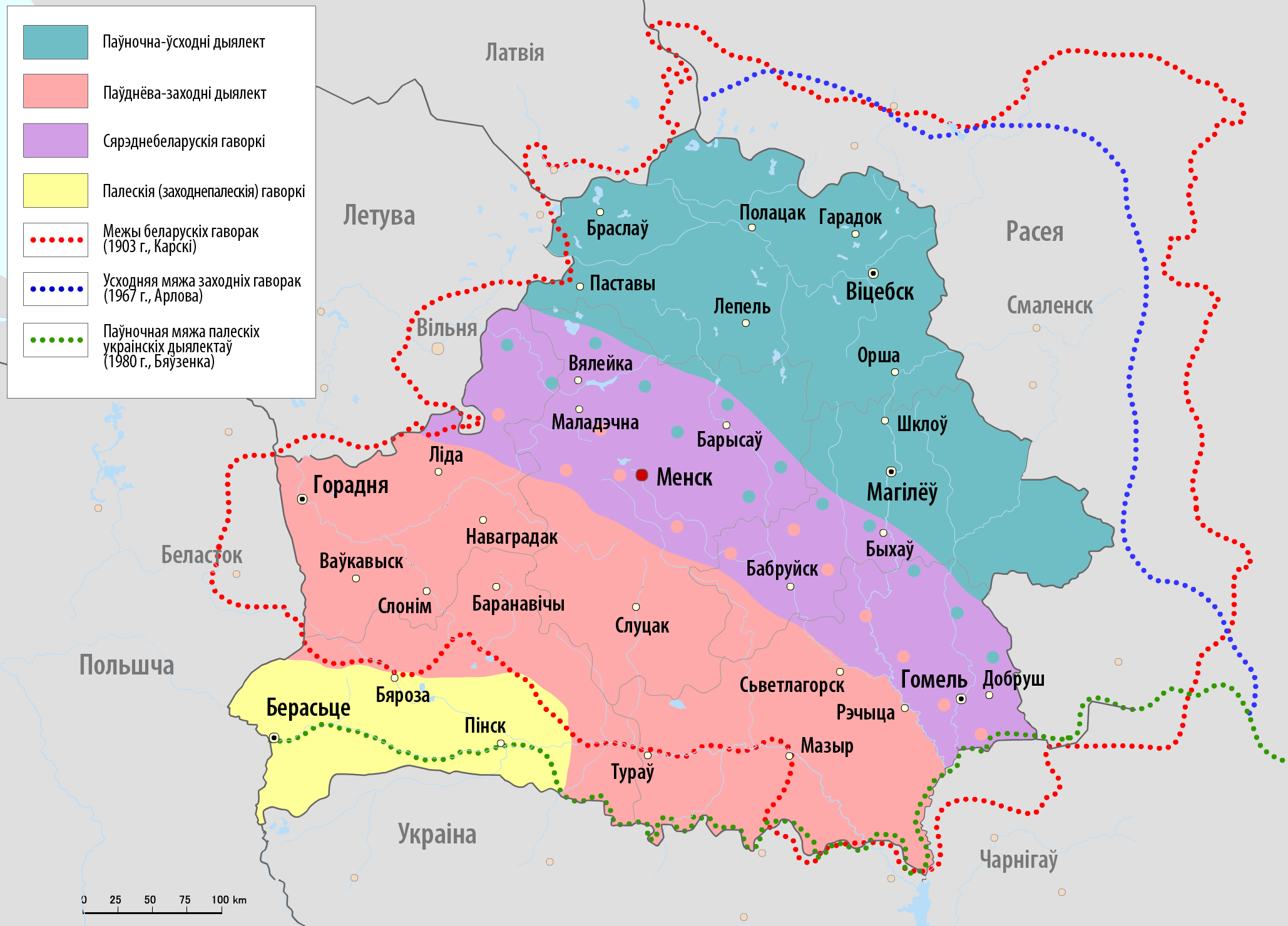 Dialects of Belorussian language Dialects North-Eastern Middle South-Western West Palyesian Lines Areal of Belarusian language (1903, Karski) Eastern border of western group of Russian dialects (1967, Zaharova, Orlova) Border between Belarusian and Ukrainian (1980, Bevzenk)